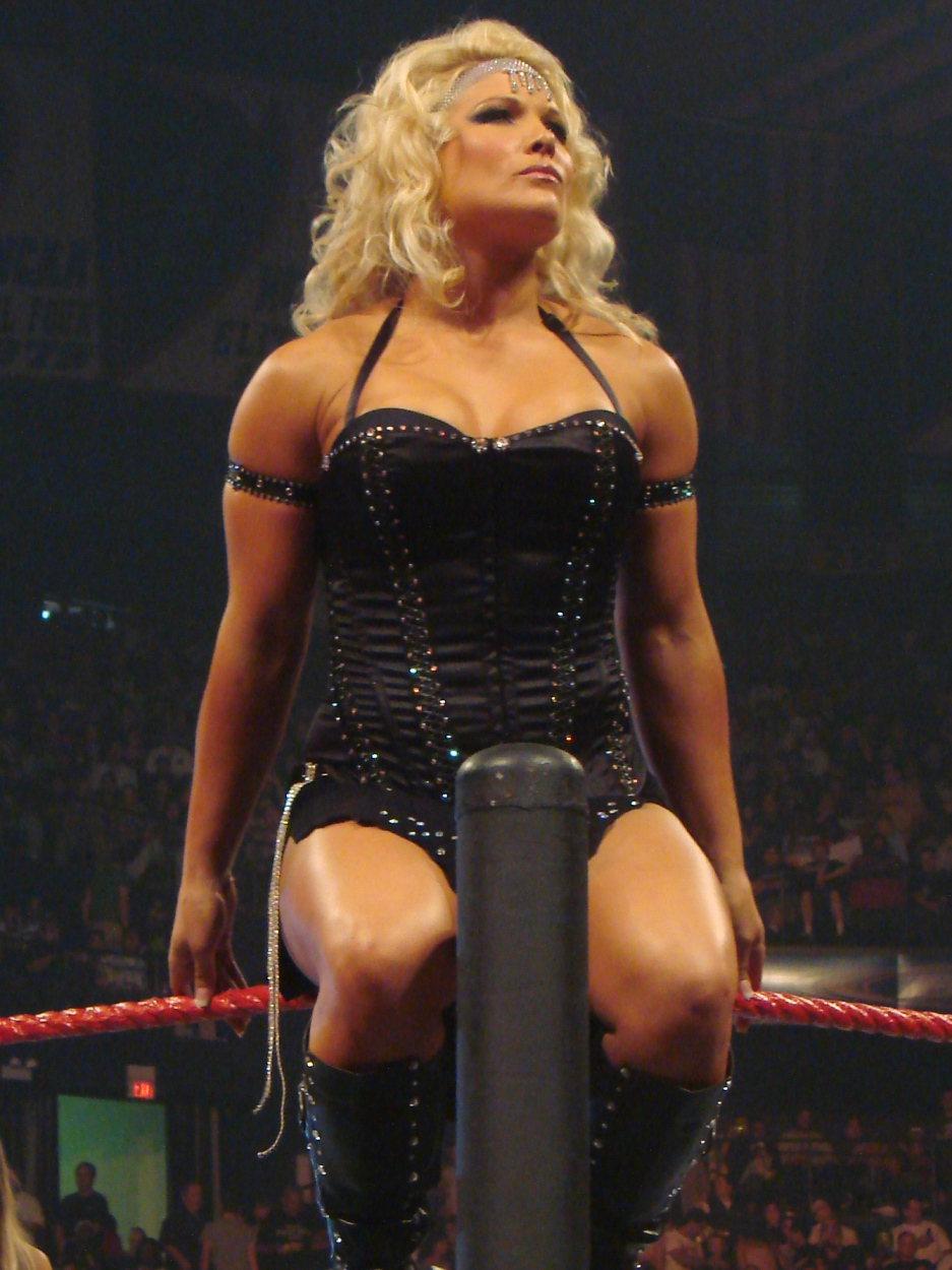 Beth Phoenix at No Mercy 2007. Allstate Arena, Rosemont, IL, October 7, 2007. Taken by me, cropped, rotated.